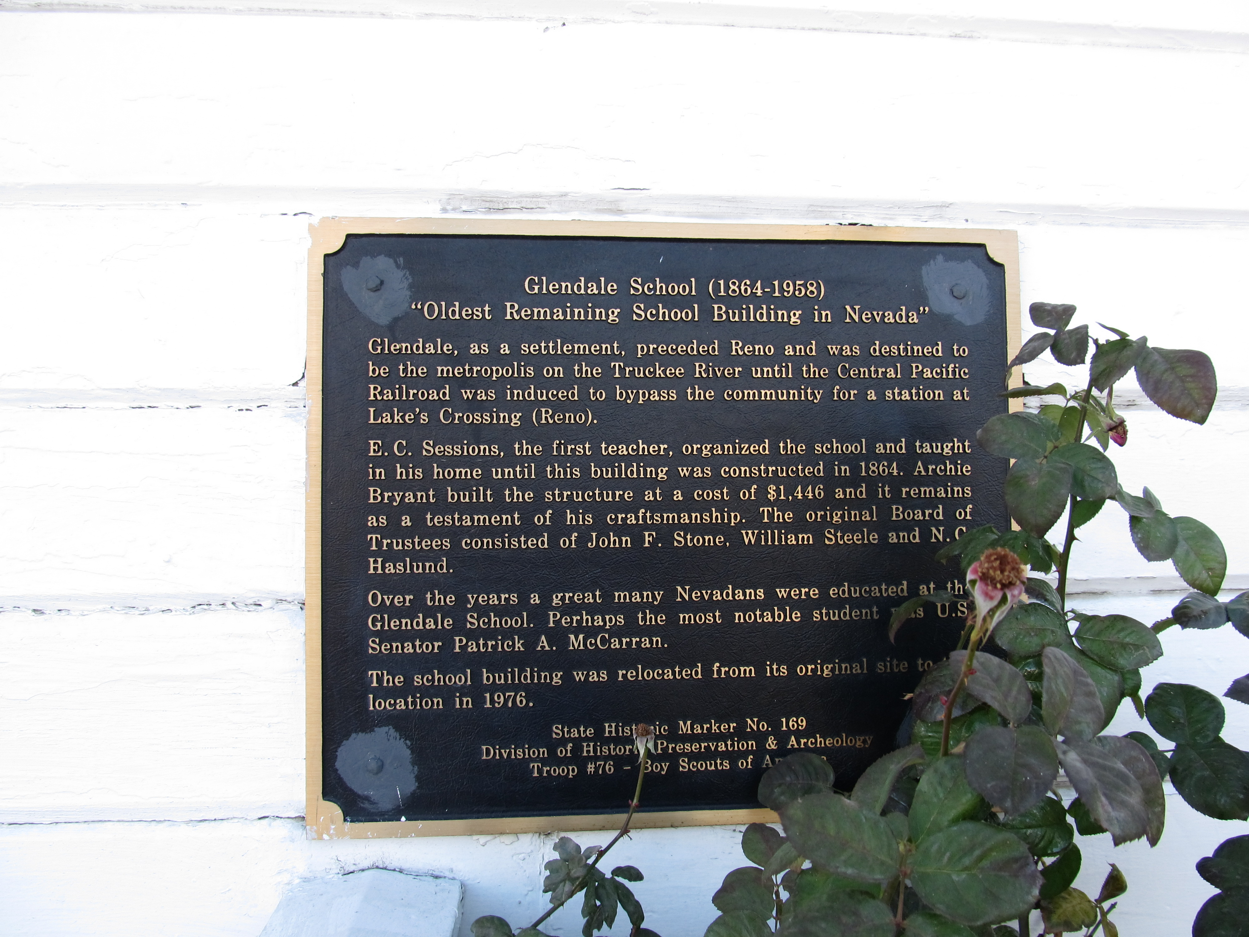 "Oldest Remaining School Building in Nevada." Glendale, as a settlement, preceded Reno and was destined to be the metropolis on the Truckee River until the Central Pacific Railroad was induced to bypass the community for a station at Lakes's Crossing (Reno). First teacher was E.C. Sessions, who organized the school and taught in his home until the building was constructed. The original Board of Trustees was made up of John F. Stone, William Steele and N.C. Haslund. Over the years a great many Nevadans were educated at Glendale School. Perhaps the most notable student was U.S. Senator Patrick A. McCarran. Built at a cost of $1,446, the school stands as a shrine in memory of its builder, Archie Bryant, and a once-bustling community.